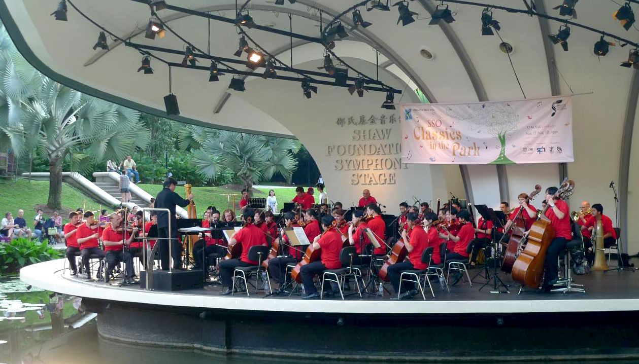 Singapore Symphony Orchestra - Classics in the Park at Singapore Botanic Garden